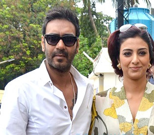 Ajay Devgan at Media meet of film 'Drishyam' at PVR Juhu